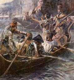 Detail from painting Lewis and Clark on the Lower Columbia (28 in x 24 in) by Charles Marion Russell; Opaque and transparent watercolor over graphite underdrawing on paper